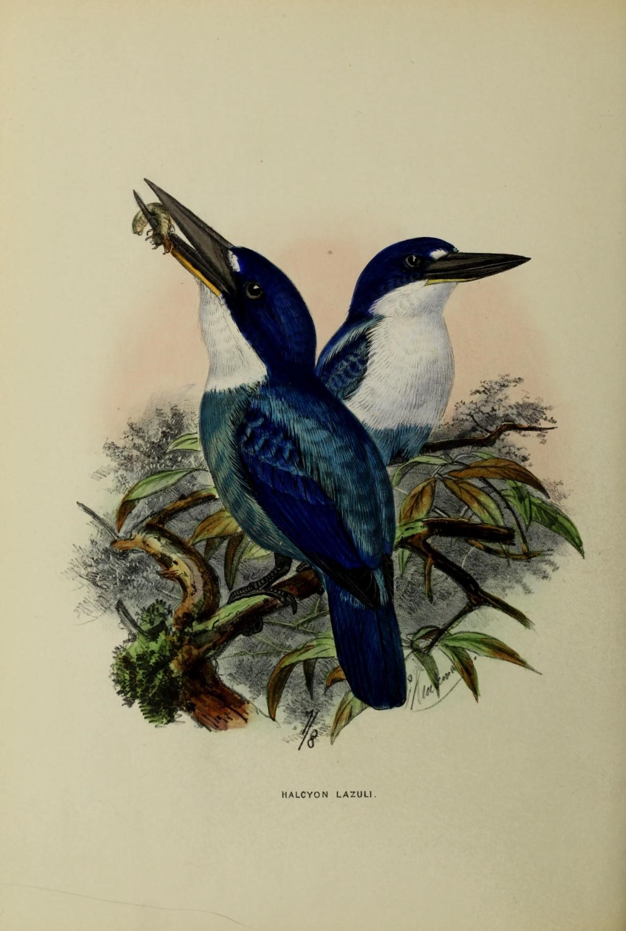 Todiramphus lazuli by John Gerrard Keulemans published in "A monograph of the Alcedinidae or, Family of Kingfishers. by R. B. Sharpe.